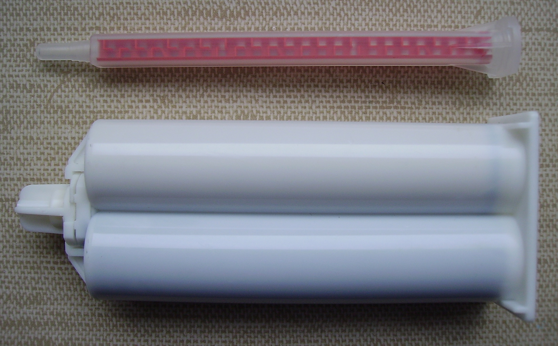 2-part epoxy adhesive in 2 X 25 mL net (mix ratio: 1:1 by volume) plastic syringe packaging and cannula. The corresponding label is shown below.